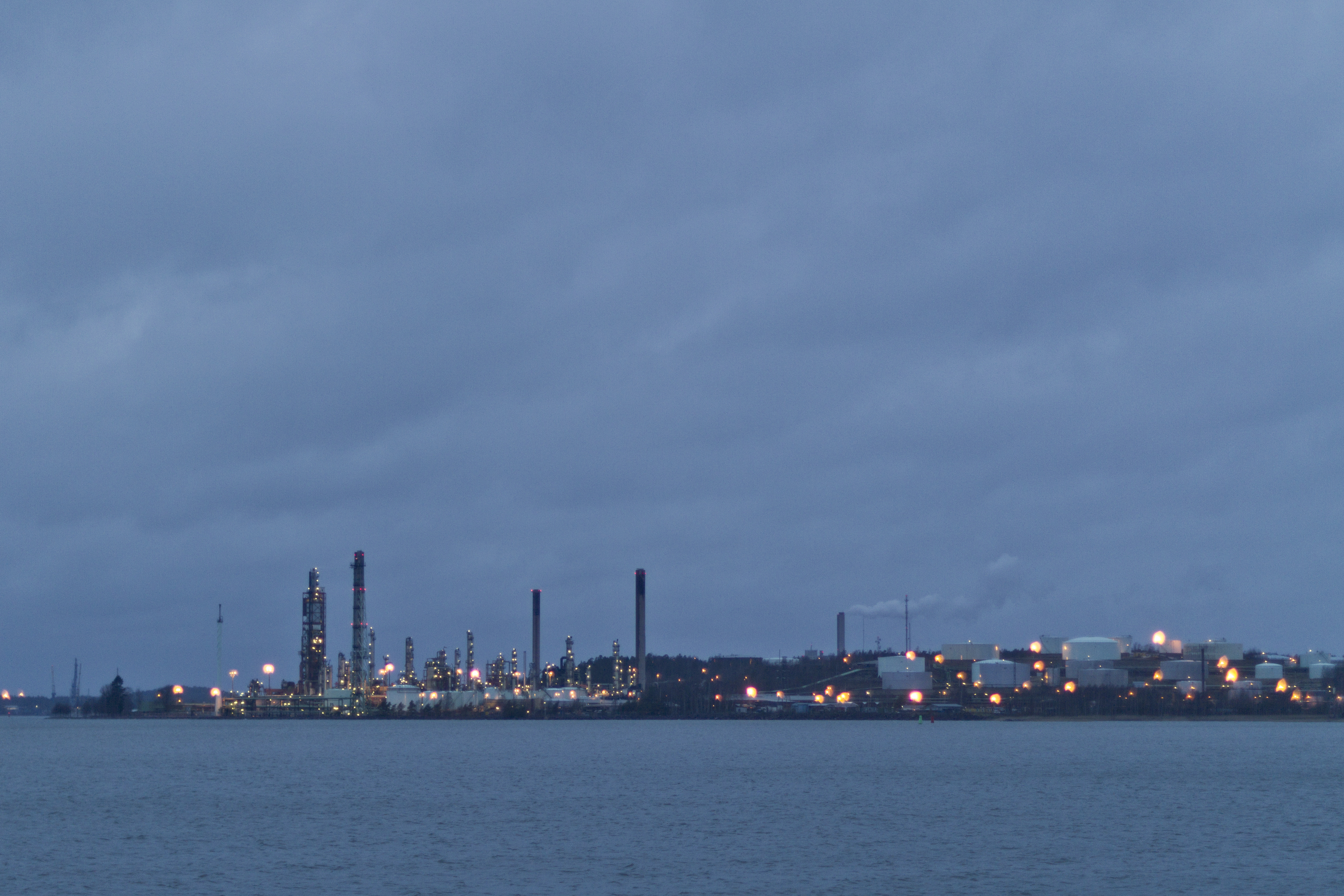 Naantali refinery in the morning of Christmas eve of 2013 as seen from the Pansio Naval Harbor.